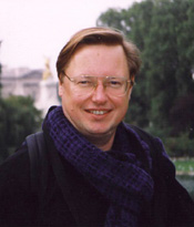 Joe Fab Picture